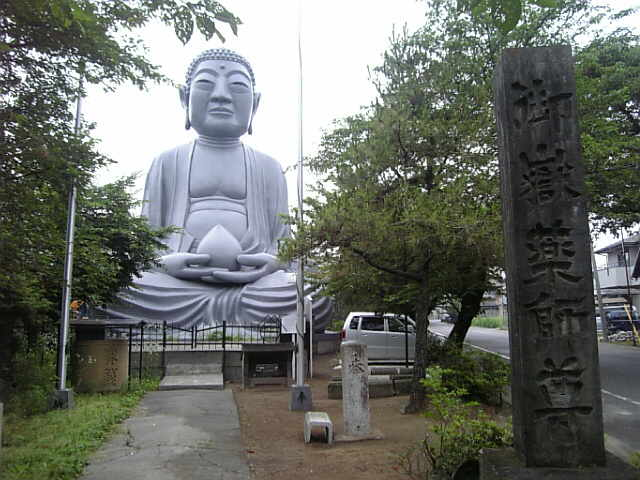 2006-6-25 The person myself photographed this.